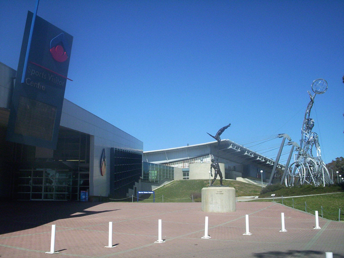 Front of the Australian Institute of Sport in Canberra. With the statues "The Acrobats" by John Robinson in the centre and "The Paralympic Basketballer" (1998) by Dominique Sutton to the right. In the background is AIS Arena.